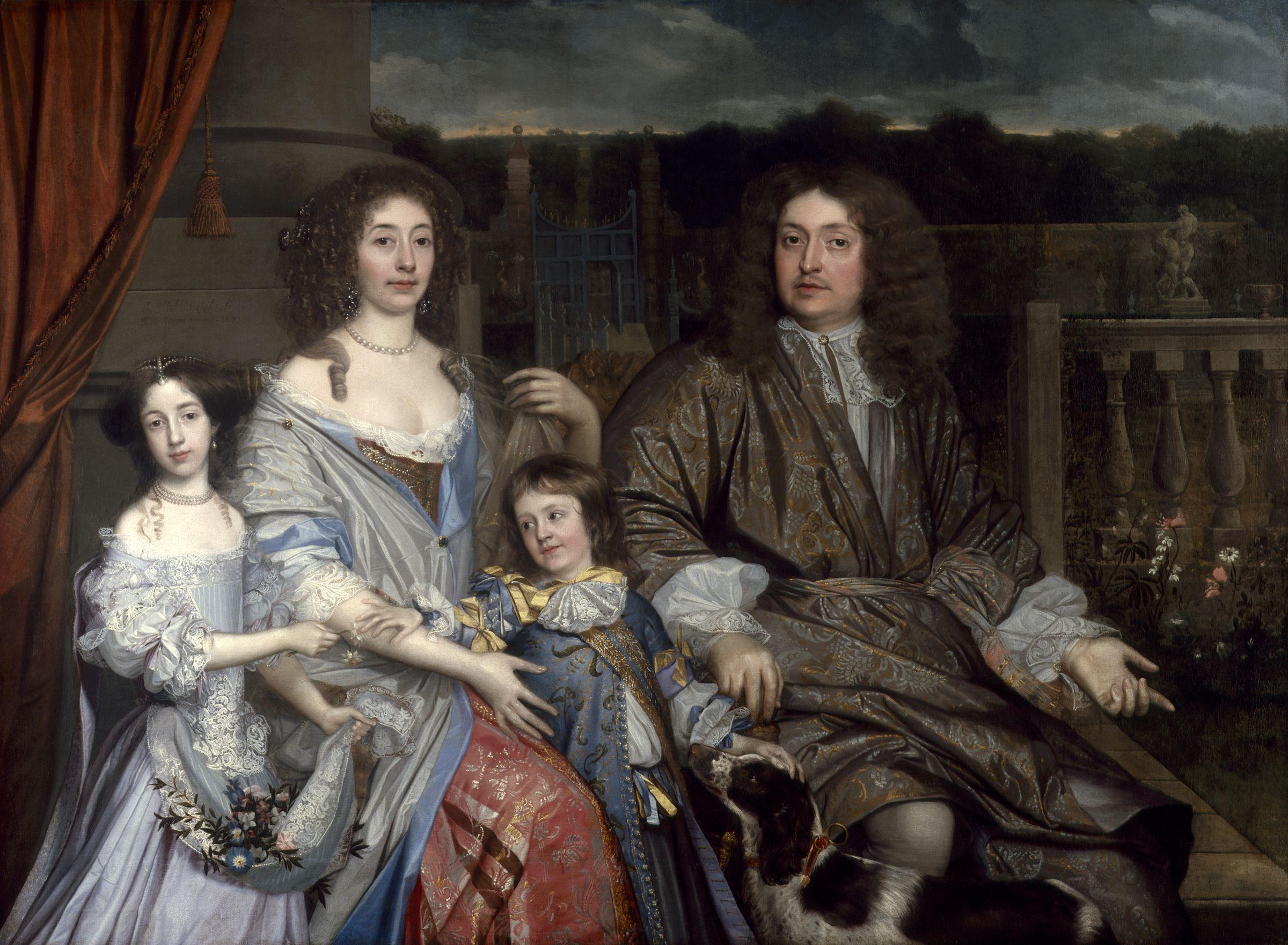 The Family of Sir Robert Vyner, by John Michael Wright (died 1694). All images in this batch have been confirmed as author died before 1939 according to the official death date listed by the NPG.